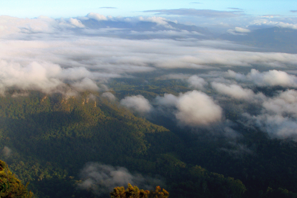 Wollumbin National Park, Australia, from summit of Mount Warning soon after daybreak